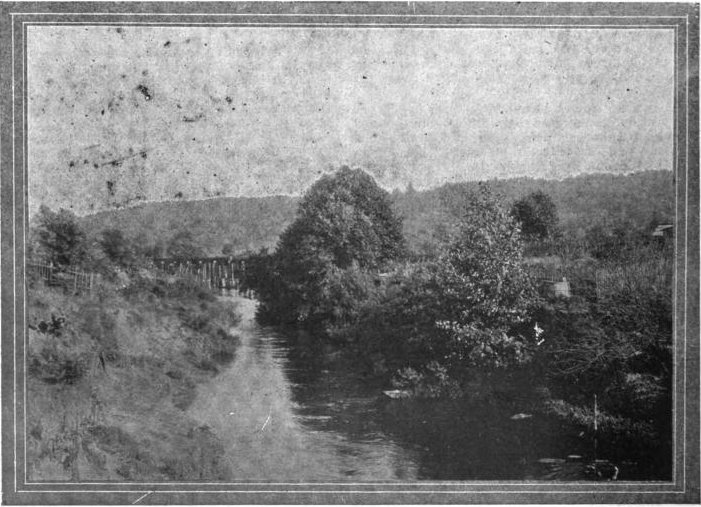 The old portage canal in Seattle, Washington, USA connecting Lake Washington to Lake Union, before the construction of the Lake Washington Ship Canal. 1908. Original caption reads "The Portage Canal Between Lakes Union and Washington".